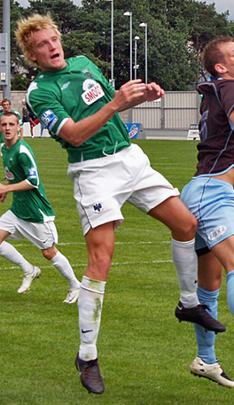 Mark Roberts. Image cropped from original at flickr.